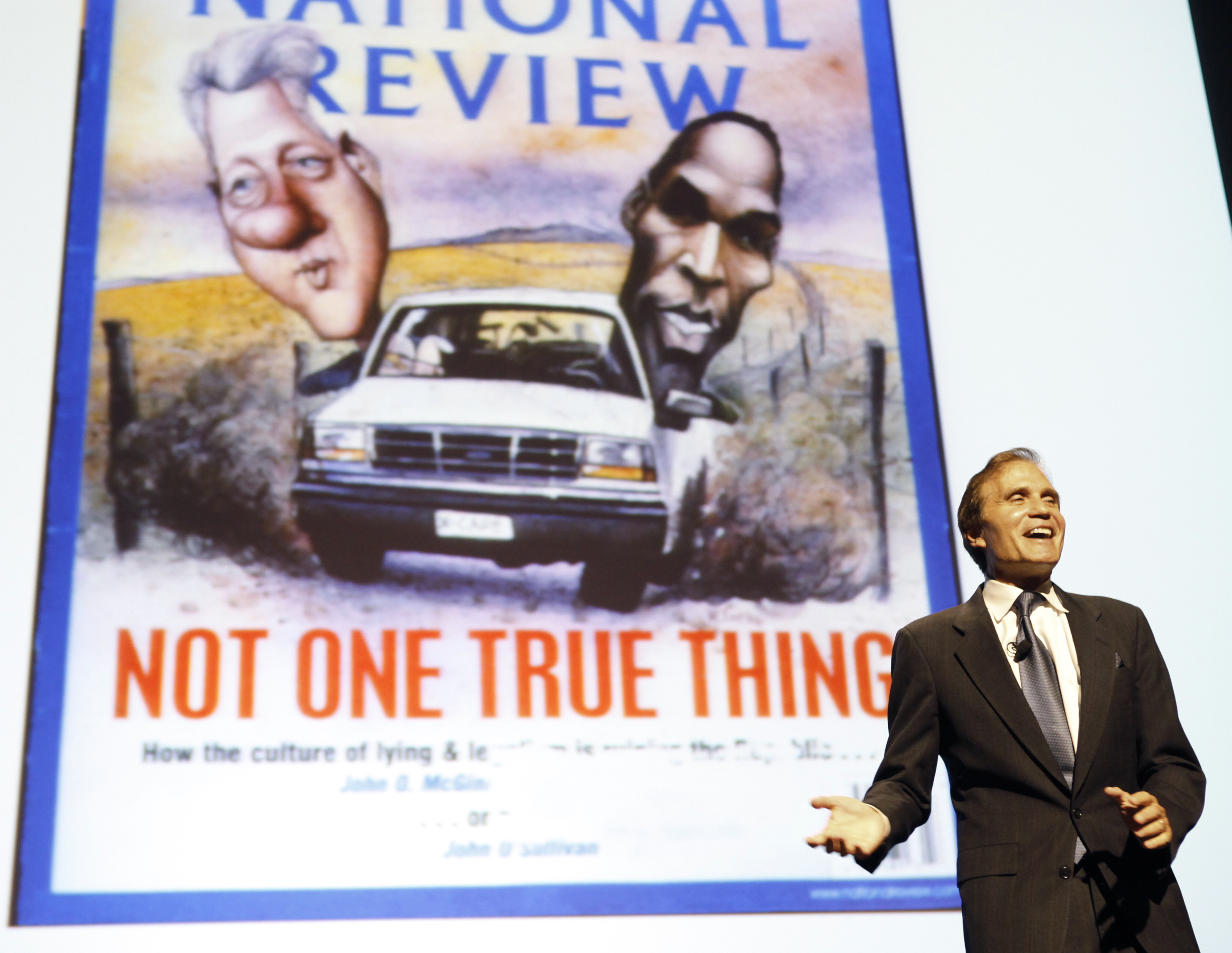 Alan Hirsch (neurologist) presenting at the Cusp Conference 2009, Chicago, IL